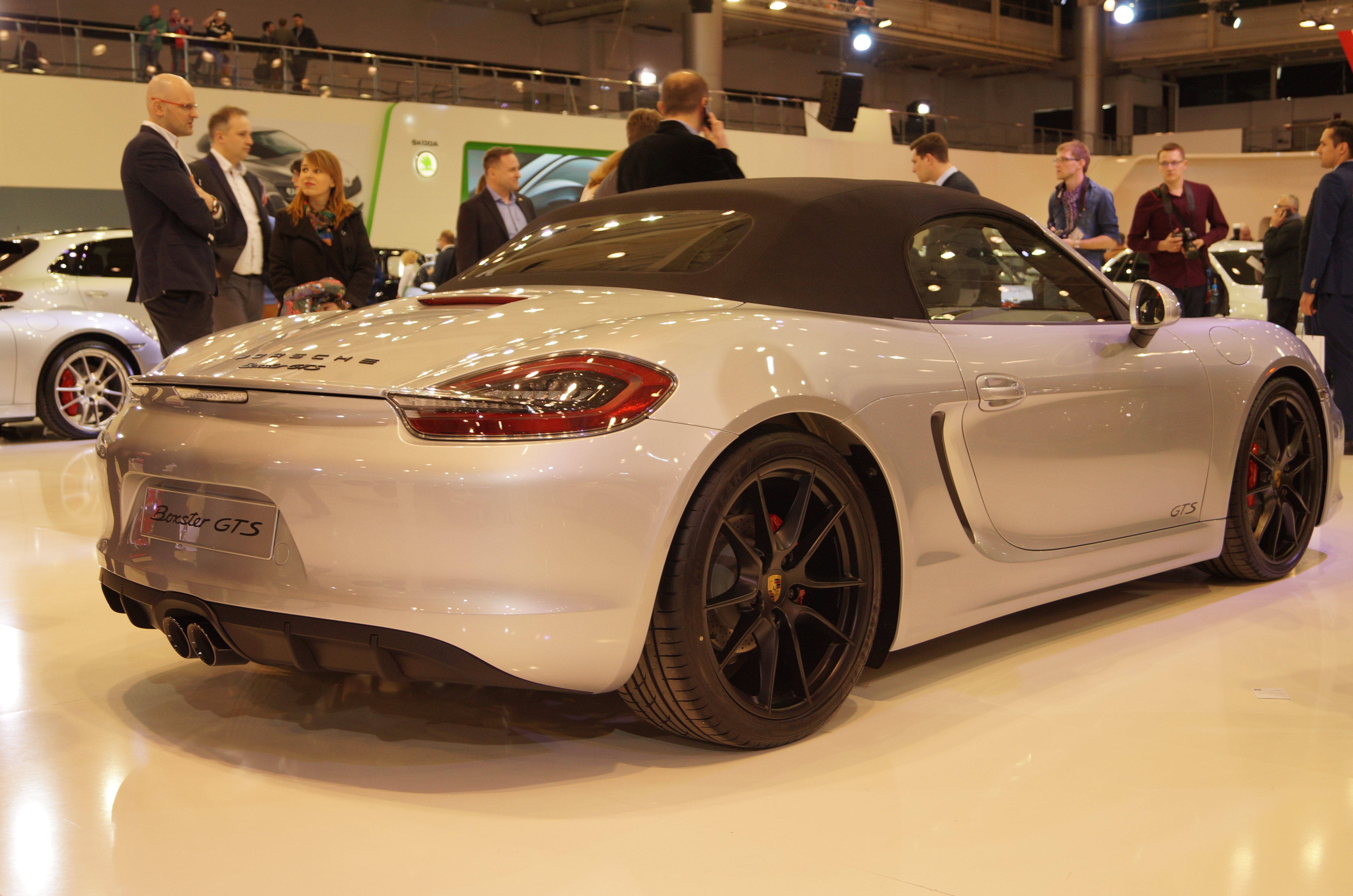 The making of this document was supported by Wikimedia Polska Association, within Wikigrant no. WG 2015-19. Tył Porsche Boxster GTS na Motor Show Poznań 2015